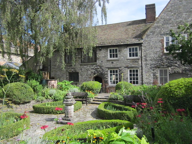 Scaplen's Court Museum & Garden